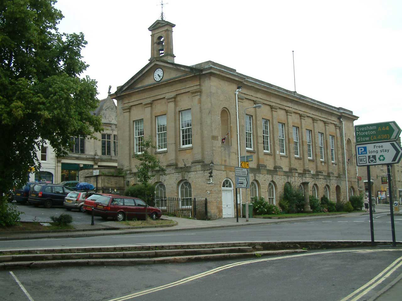 Photo by Op. Deo July 2005